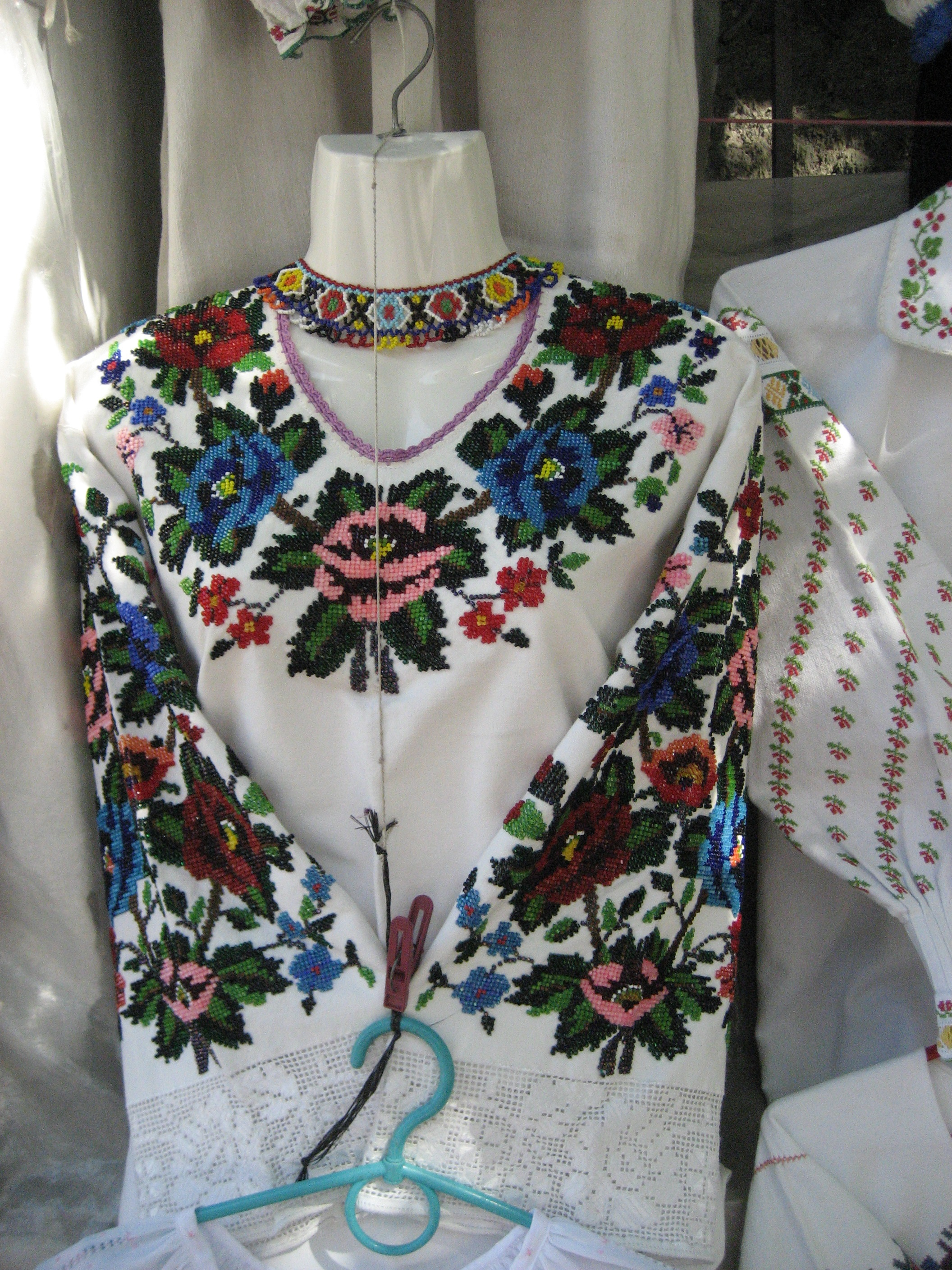 Vyshyvanka (Ukraine)